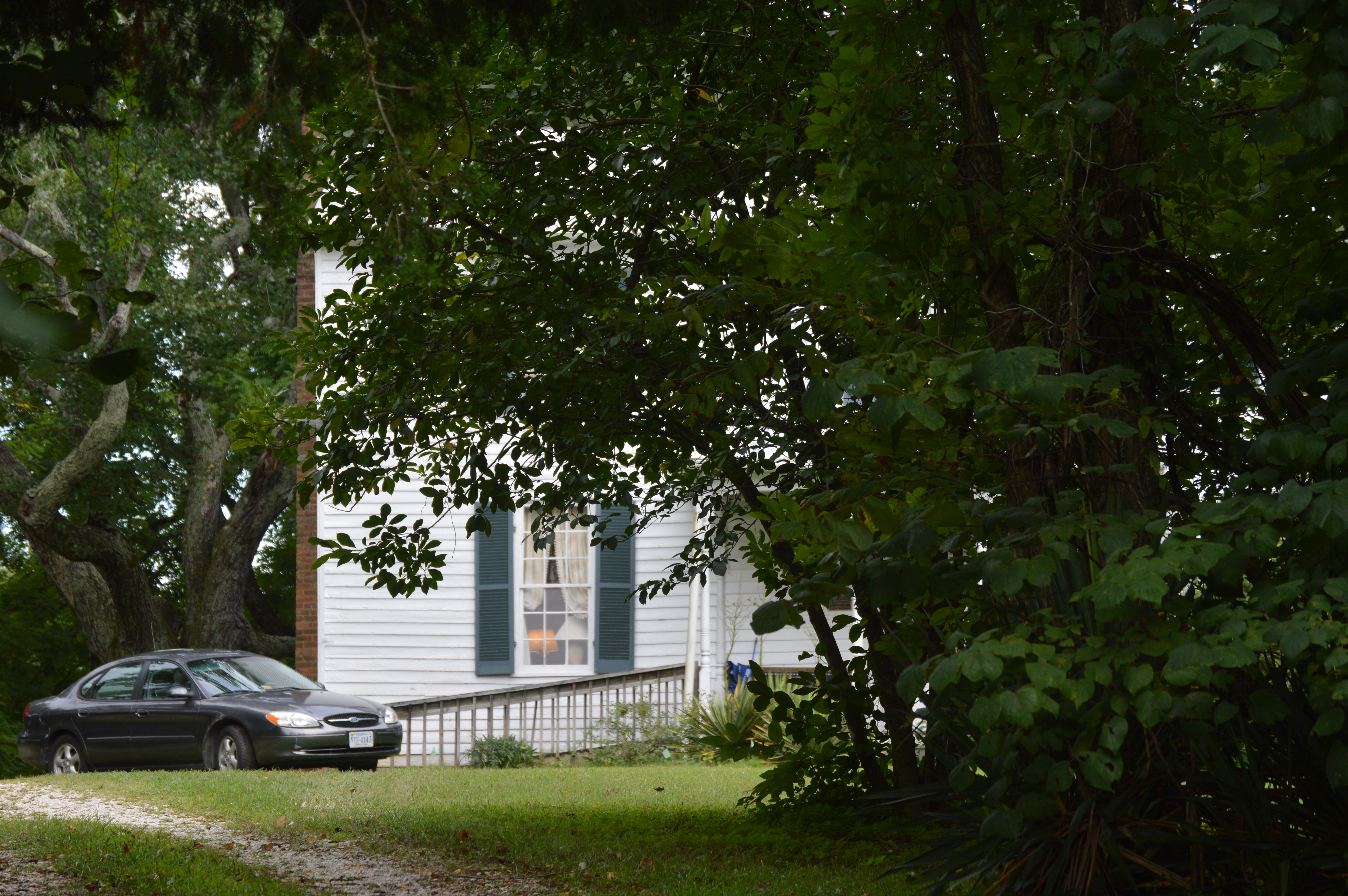 Through-the-trees view of the front of the farmhouse at Mountain View Farm (now a commercial winery, Rebec Vineyards), located off U.S. Route 29 east of Clifford in Amherst County, Virginia, United States. Built in 1777, it is listed on the National Register of Historic Places.